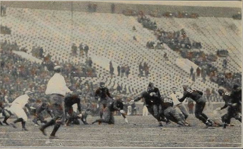 Photo from Vandy-Minnesota game of 1924. Gil Reese being downed by three Minnesota players.